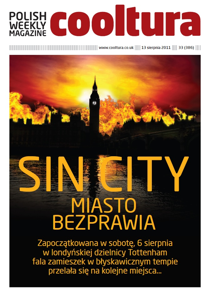 Editors of the Polish Cooltura Weekly Magazines, allows you to use this picture for all users. or